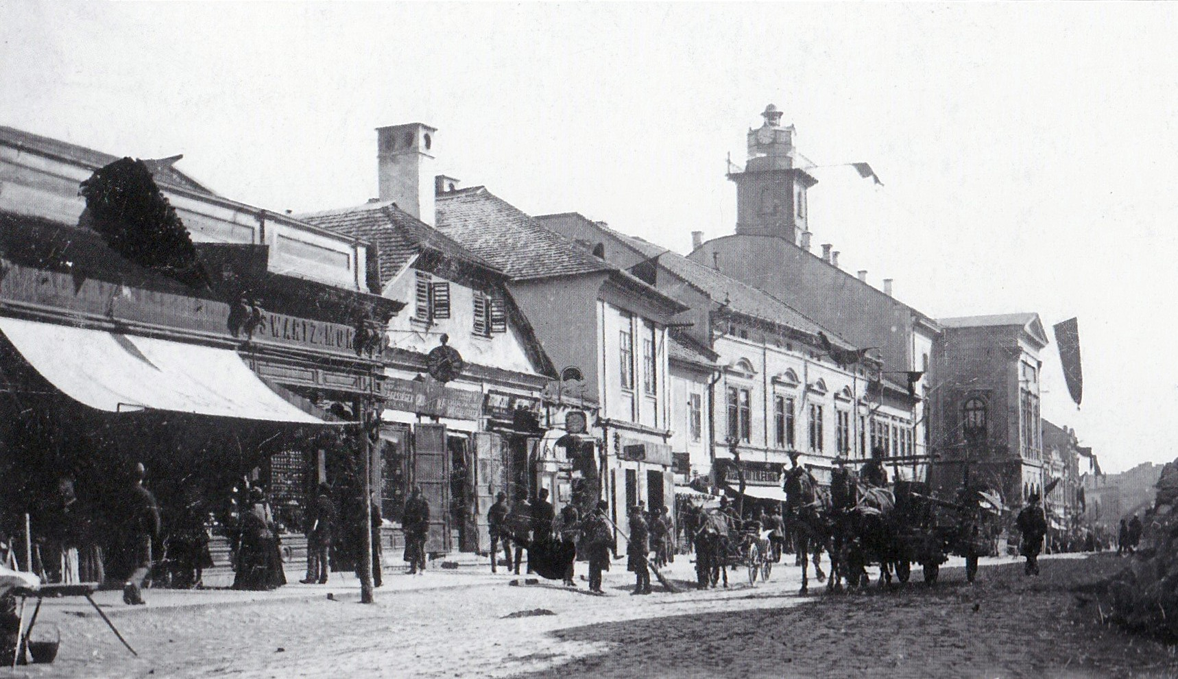 Széchenyi Street with 15-17 house number on old postcard, before 1900